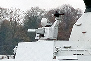 Goalkeeper CIWS (Close-in weapon system) on the Netherlands Navy's frigate HNLMS De Zeven Provincien (F 802).